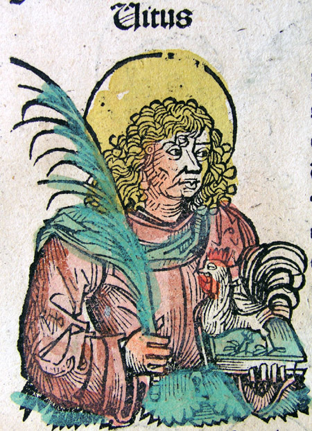 Saint Vitus, from the Nuremberg Chronicle, en:1493 Taken from